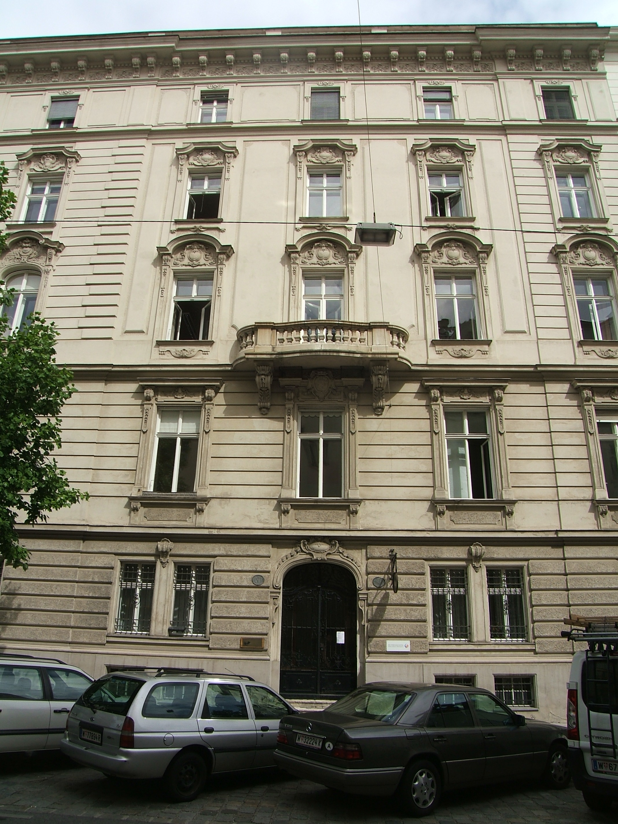 Palais Hoyos-Sprinzenstein in Vienna 4th district Hoyosgasse 5-7